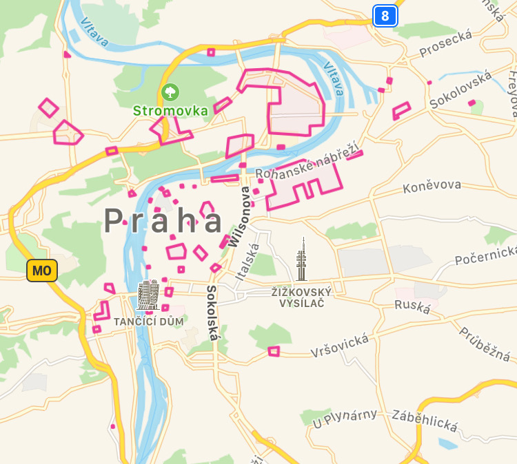 Map showing the bike sharing (Rekola) zones